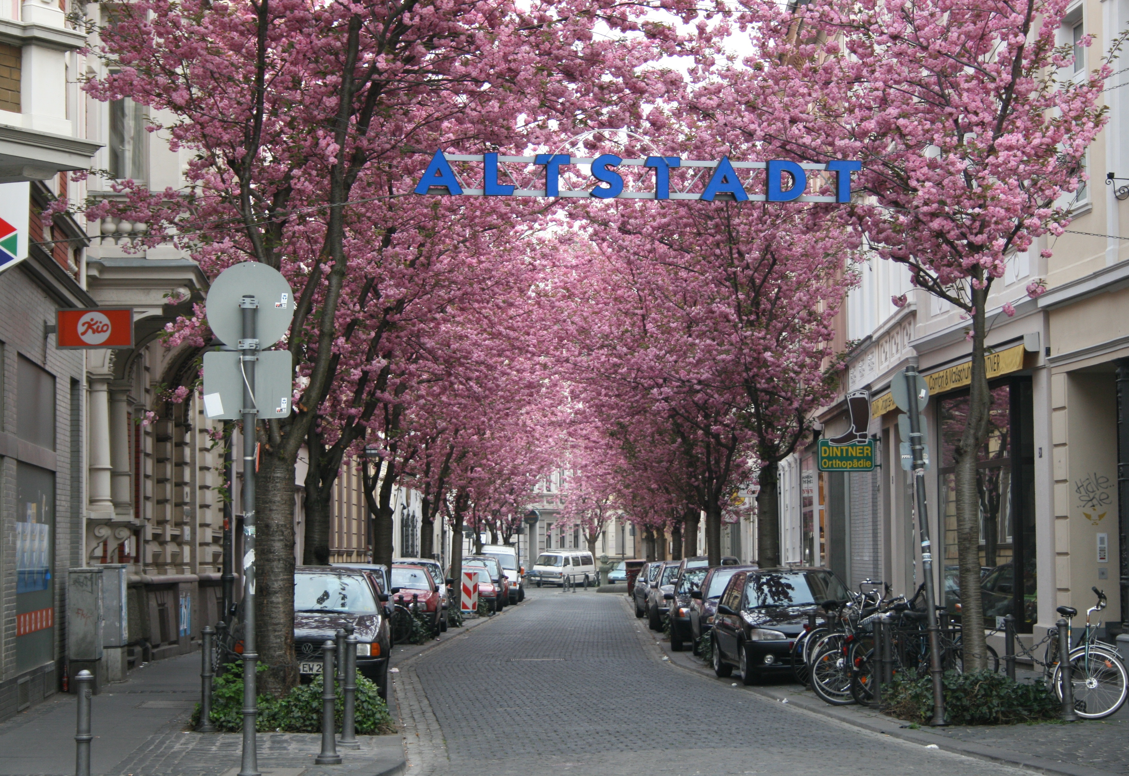 Bonn, Germany: view to Breite Strasse („Altstadt“/Nordstadt); cherry blossoms.